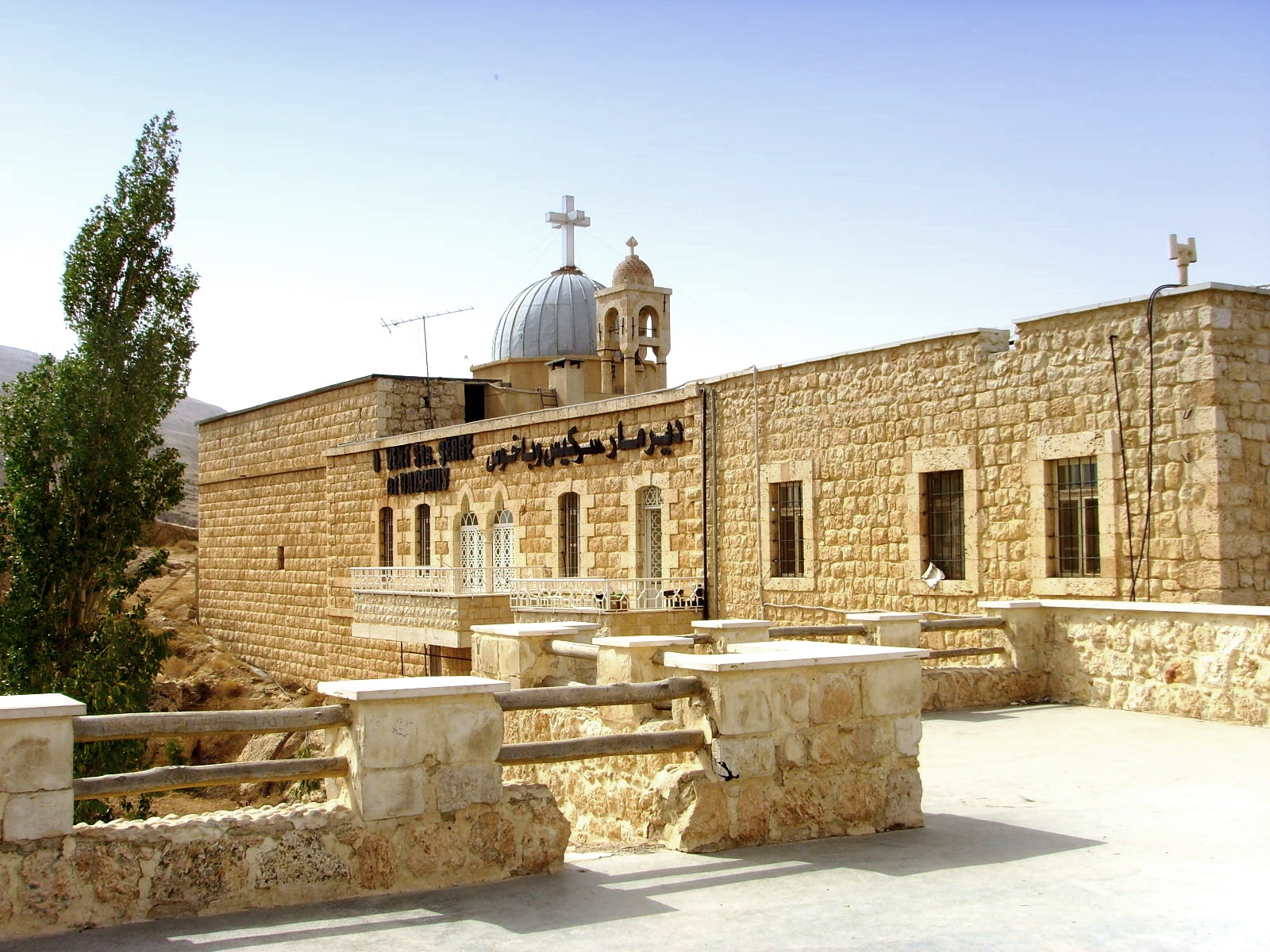 Monastery St Sergios